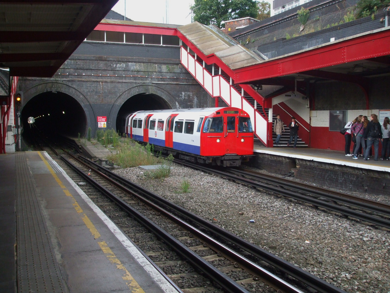 A southbound train of Bakerloo line 1972 Stock emerges from the tunnel portals at Kensal Green station